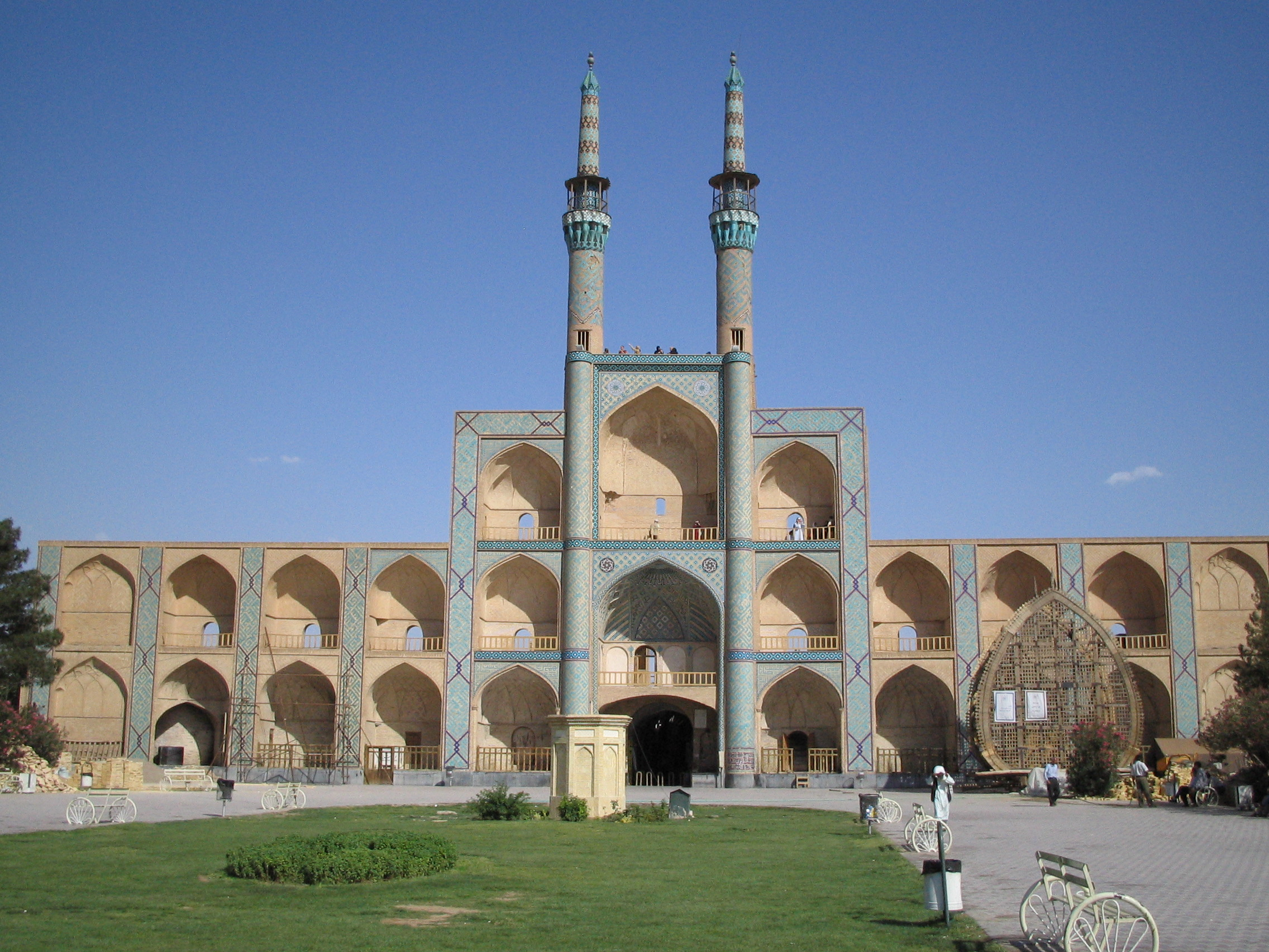 Tekiyeh Amir Chagh magh and mosque courtyard — in Yazd, Iran.